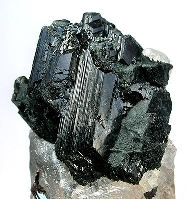 Chloritoid Locality: Nuristan Province (Nurestan; Nooristan), Afghanistan (Locality at ) Size: small cabinet, 6.3 x 3.5 x 3.0 cm Chloritoid An unusually displayable chloritoid cluster in that it is on matrix (contrasting matrix at that!), and has multiple crystals (to 3 cm) instead of the usual broken single crystal one so often sees. Chloritoid is very rare, and great crystals, the world's best, seem to have come out from only one aberrant find in Afghanistan about 1999-2000. Notable specimens made their way into several prominent collections at the time, mostly coming through dealer Herb Obodda, as with this one which was sold to Lawrence Conklin in NYC at the time for his personal collection of rare species miniatures. This is a very showy specimen because of the contrast as the jet black, lustrous, chloritoid crystals perch upon quartz. Minor bright red rutile serves as an accent on the quartz mass.